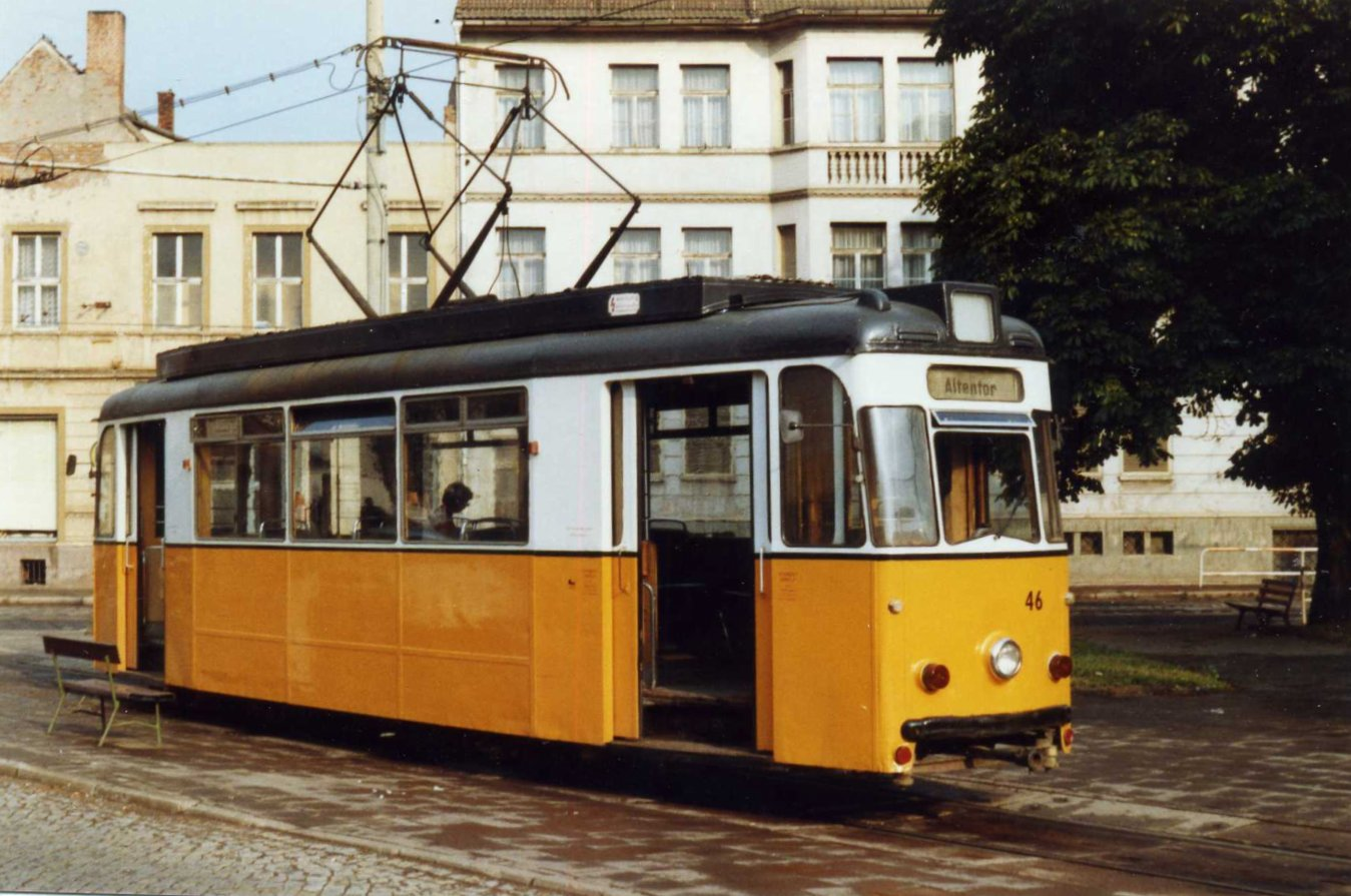 An early evening tram waits at Arnoldplatz. Nordhausen had an attractive fleet of yellow DDR made cars. This was a side route to Altentor along which the tram depot lay. The Tramway celebrated its centenary in 2000 The main north-south route was served by equally attractive articulated cars in a similar GDR style. These single cars were double ended, and could operated without a turning circle. One of these trams has been preserved by the undertaking, Stadtwerke Nordhausen..... shown here in the same livery with centenary celebration graphics. Unfortunately, No 46 did not survive. This T57 Gotha car from 1959 arrived in Nordhausen from Gera. It was withdrawn in 1992 and spent some time as a school bisto before being scrapped. Seen elsewhere at the same time and place, but from a front-on perspective